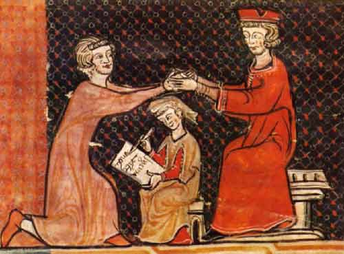 An hommage, the bond between vasal and suzerain